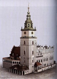 Town Hall of Cracow in 1787